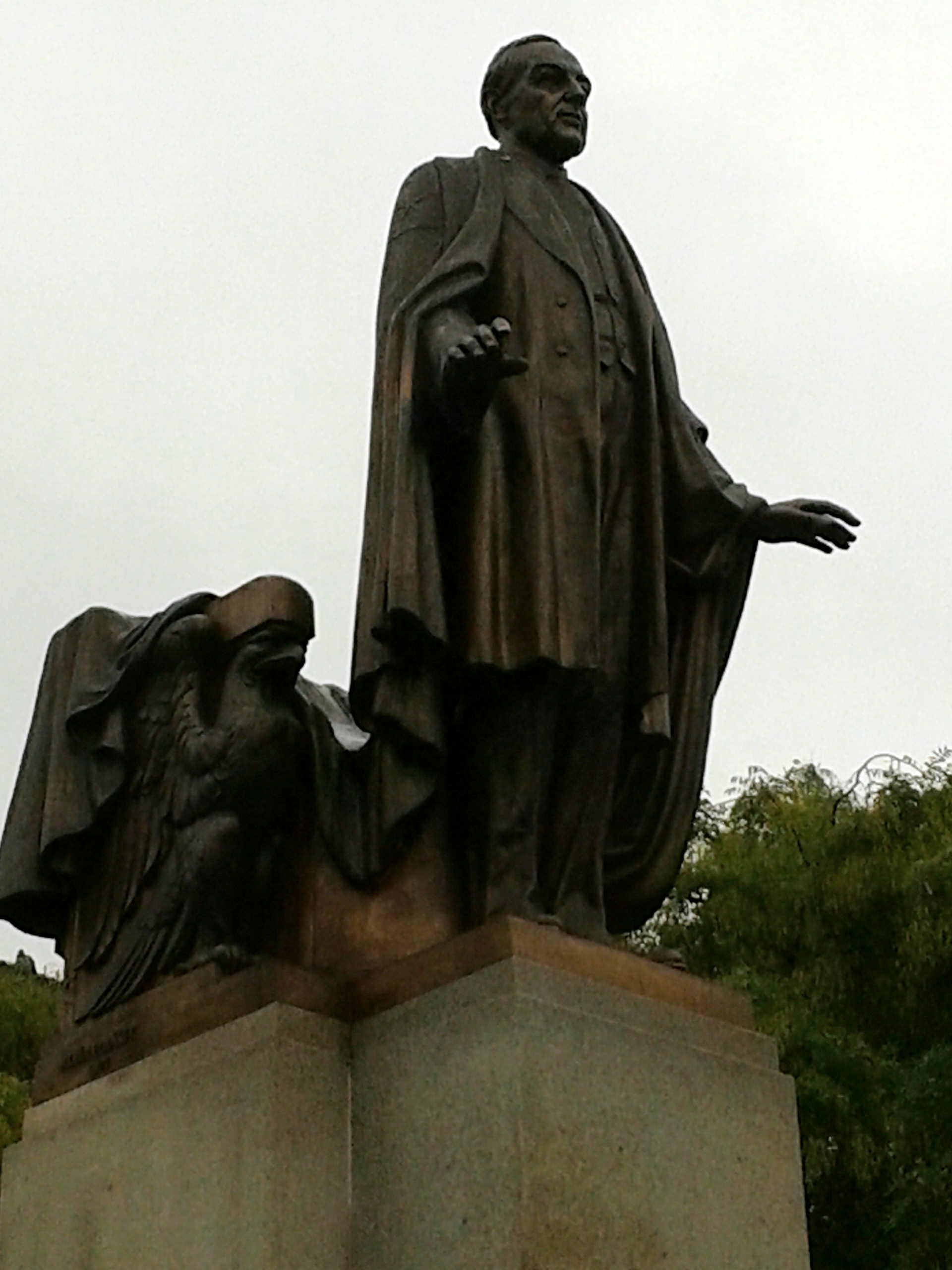 Memorial to US President Thomas Woodrow Wilson (* 1856 - † 1924), a replica of the original work (from 1928) by Albín Polášek (* 1879 - † 1965) - sculptor of the Czech origin. Authors replicas from 2011: Vaclav Frýdecký (* 1931), Michal Blažek (* 1955), Daniel Talavera (* 1969). Detail of the statue of the statesman. View from the right. Location: Prague, Vrchlického sets, Czech Republic.